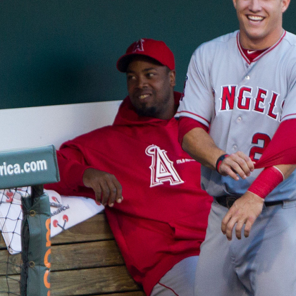 Jerome Williams